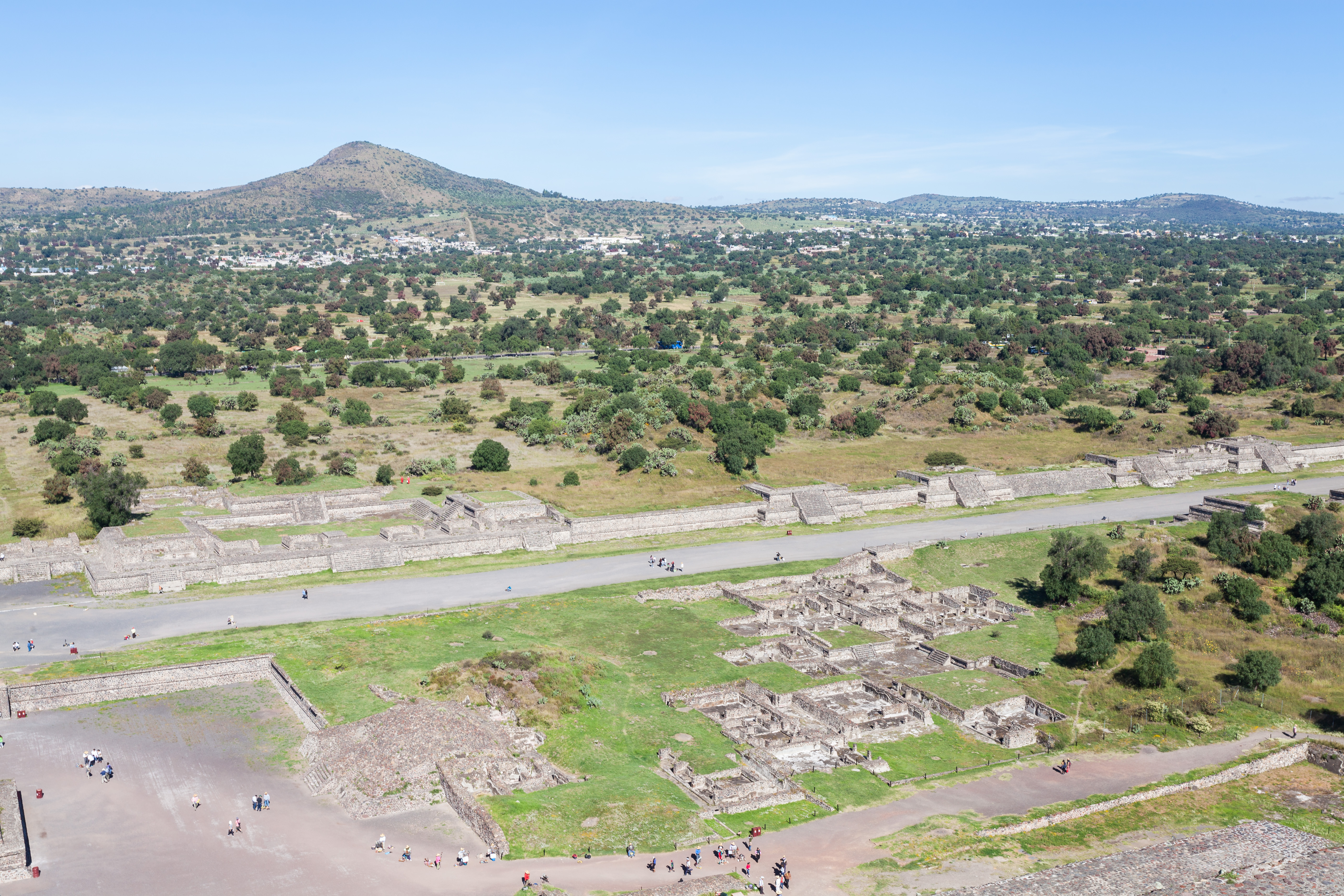 Avenue of the Dead, Teotihuacán, Mexico